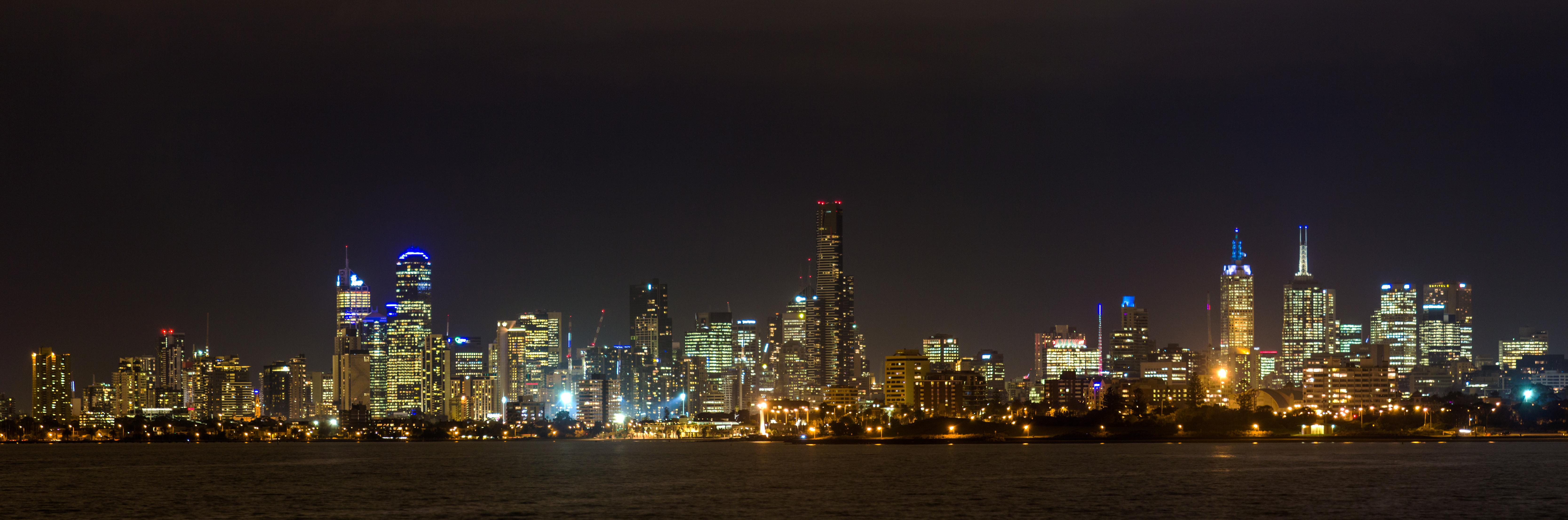 Night skyline of Melbourne from Brighton marina